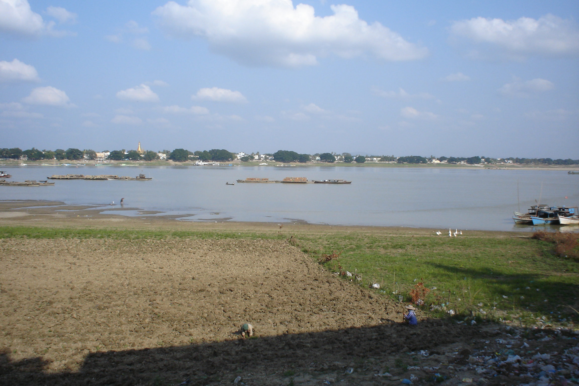 Crops, barges, boats and temples around the Chindwin river, North of Monywa